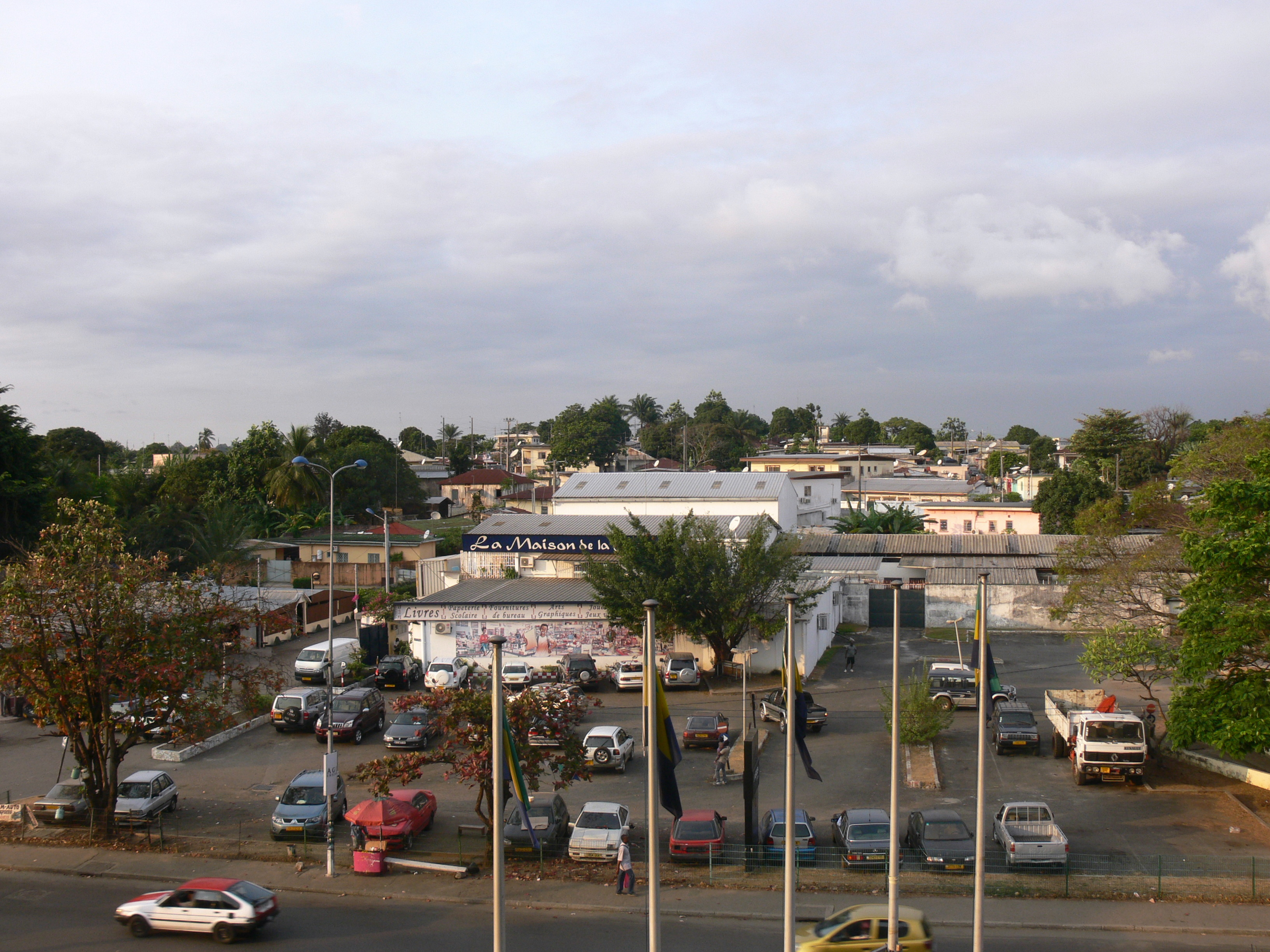 Street scene in Libreville, Gabon